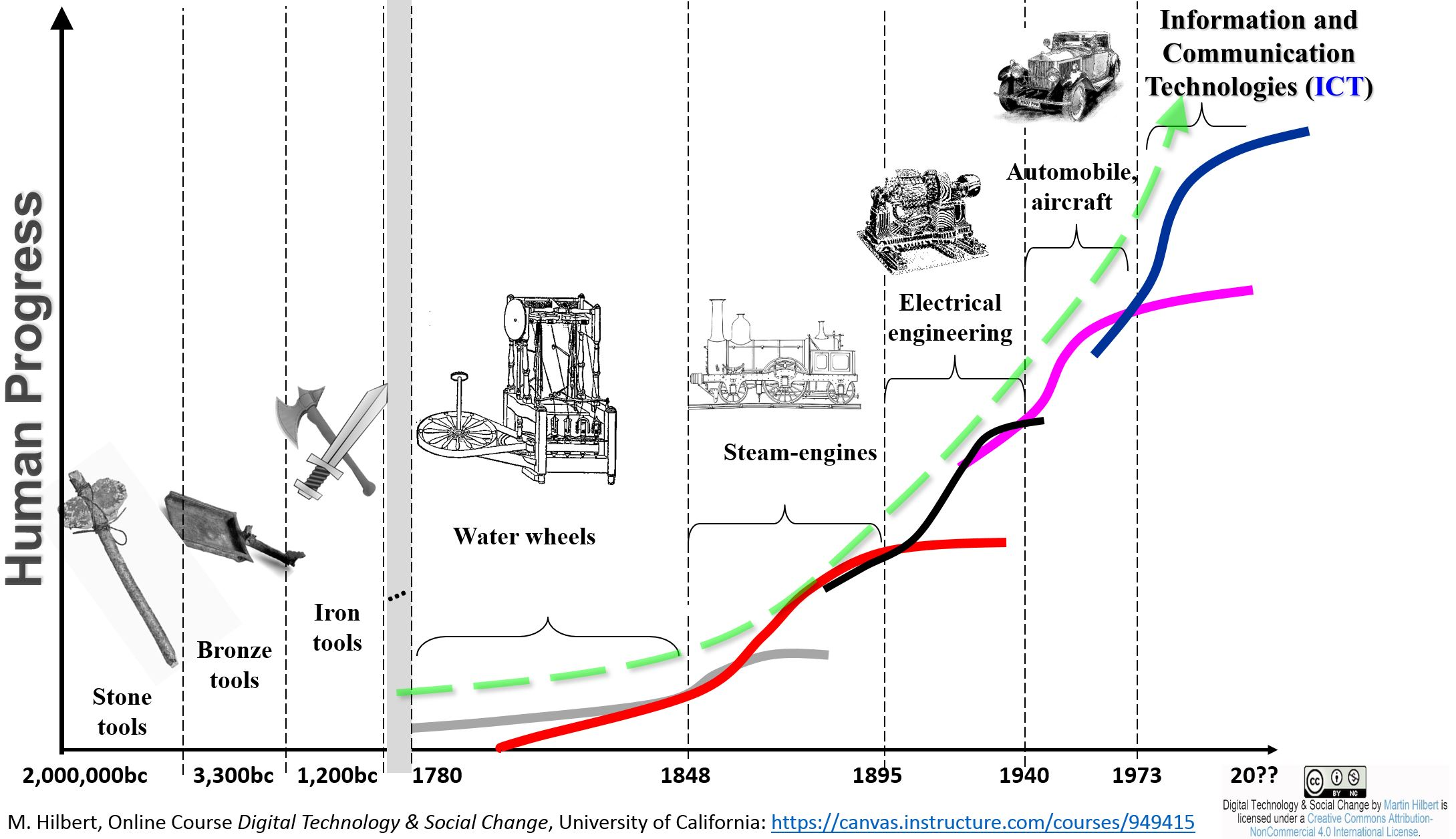 Long Waves of Social Evolution.